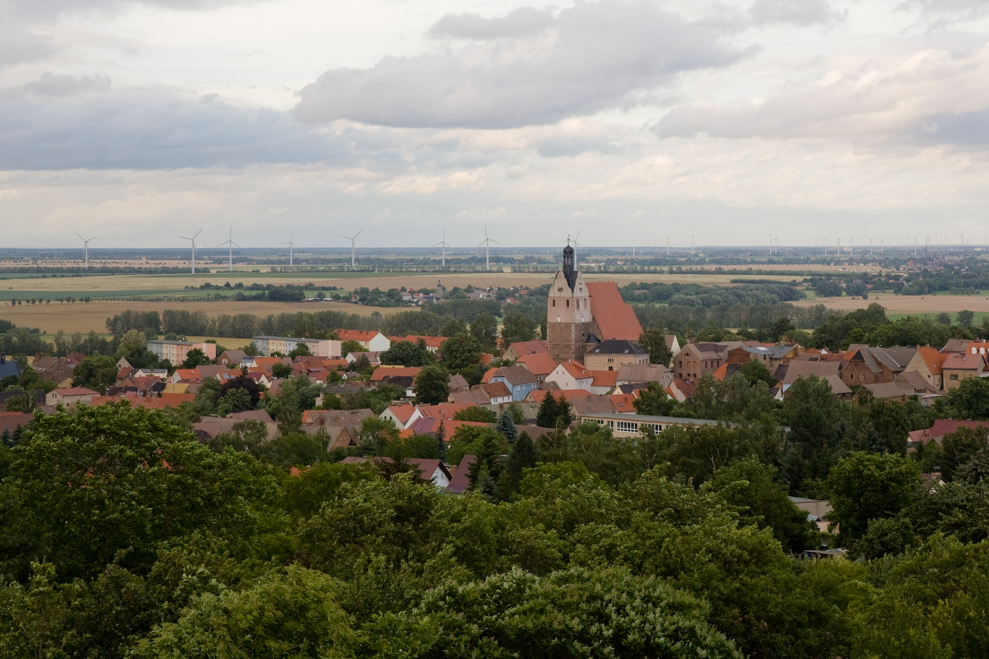 Löbejün, Germany; view with church St. Petri